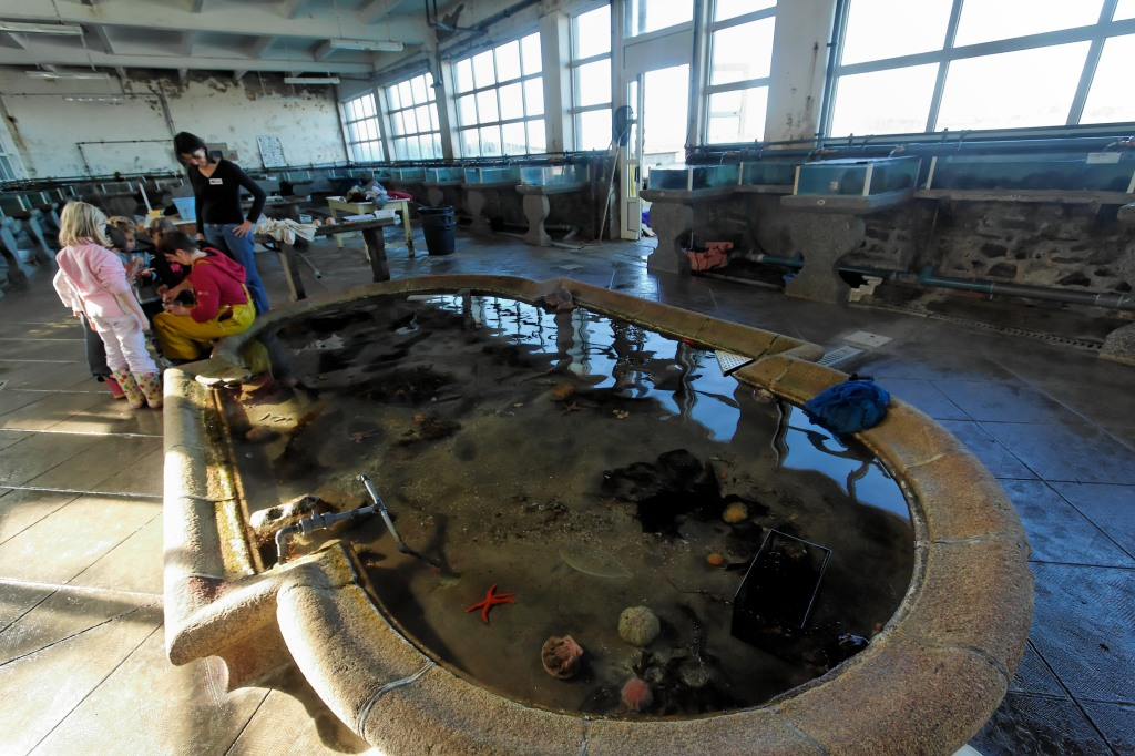 The research aquarium (from the early XXe century) of the Station biologique de Roscoff, Finistère, France